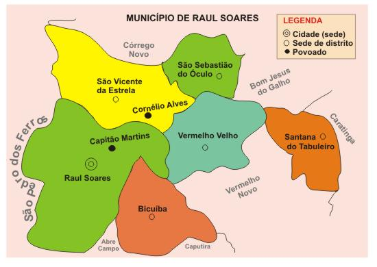 Map of Raul Soares